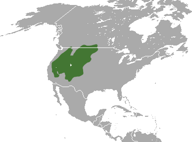 Mountain Cottontail (Sylvilagus nuttallii) range